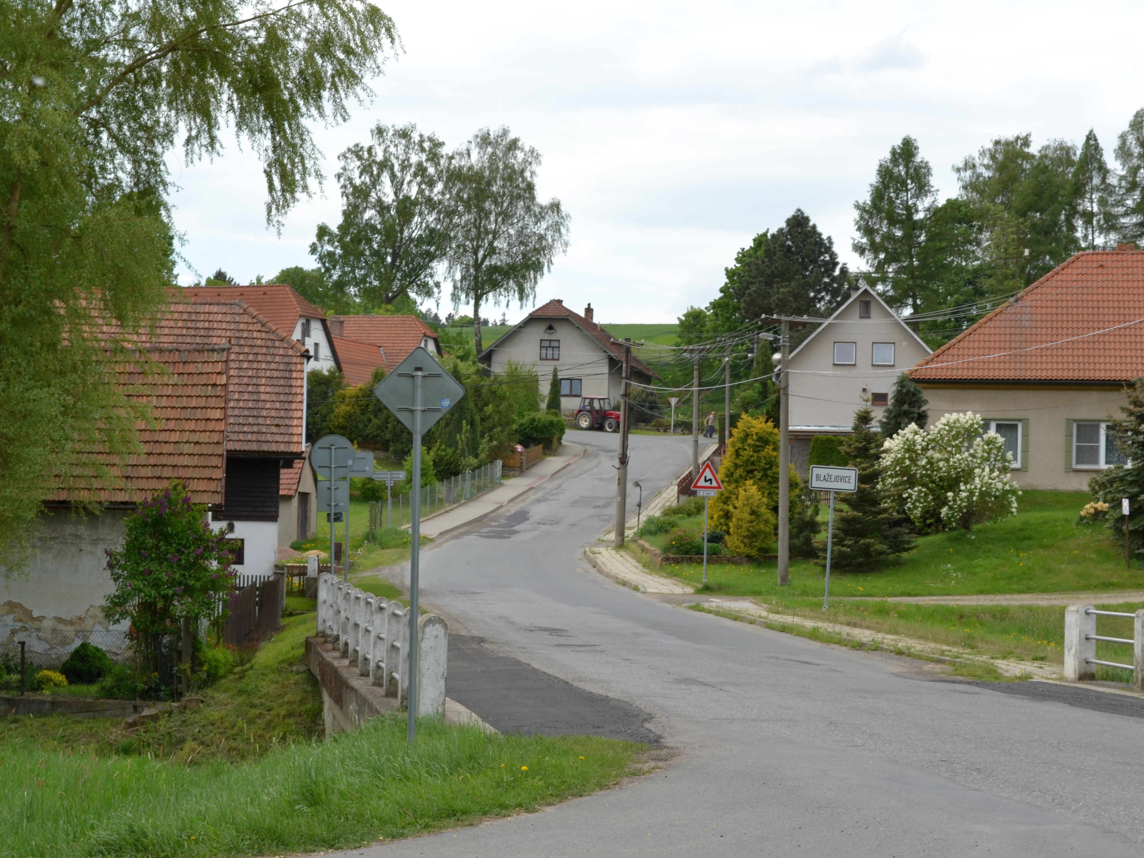 Rozsochy, Žďár nad Sázavou District, Czechia, part Blažejovice.